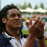 Mike Umaga in 2004 after playing for Rotherham